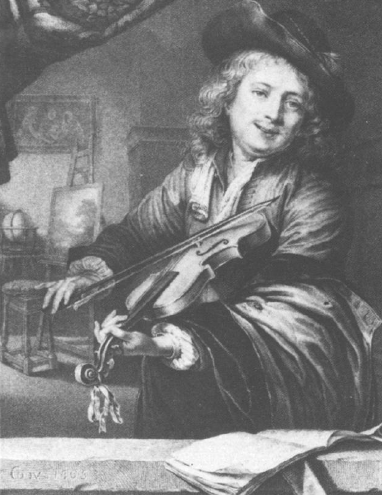 Violin player: lithograph after a painting by Gerrit Dou